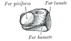 The left triangular bone.